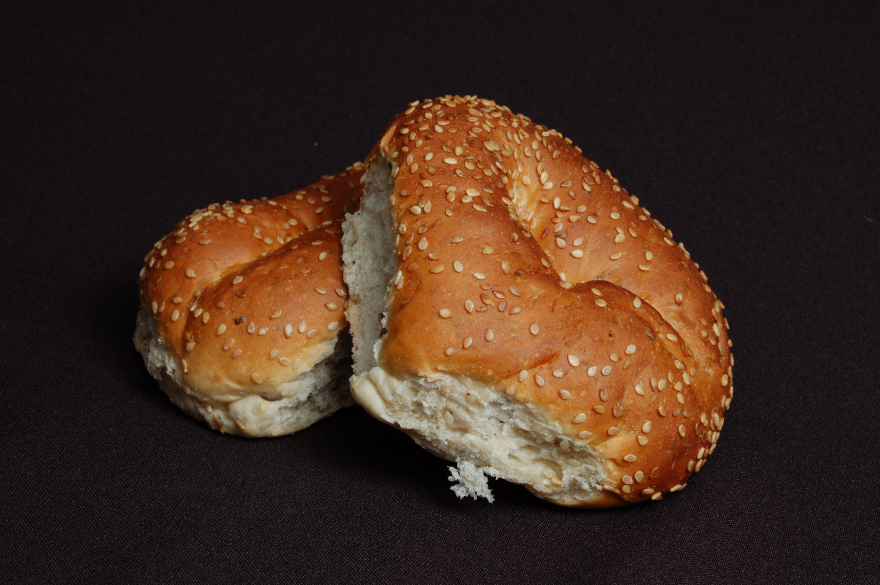 Traditional Maltese Qaghaq tal-Hmira (lit. yeast rings). A sweet dough pastry typically served with tea.